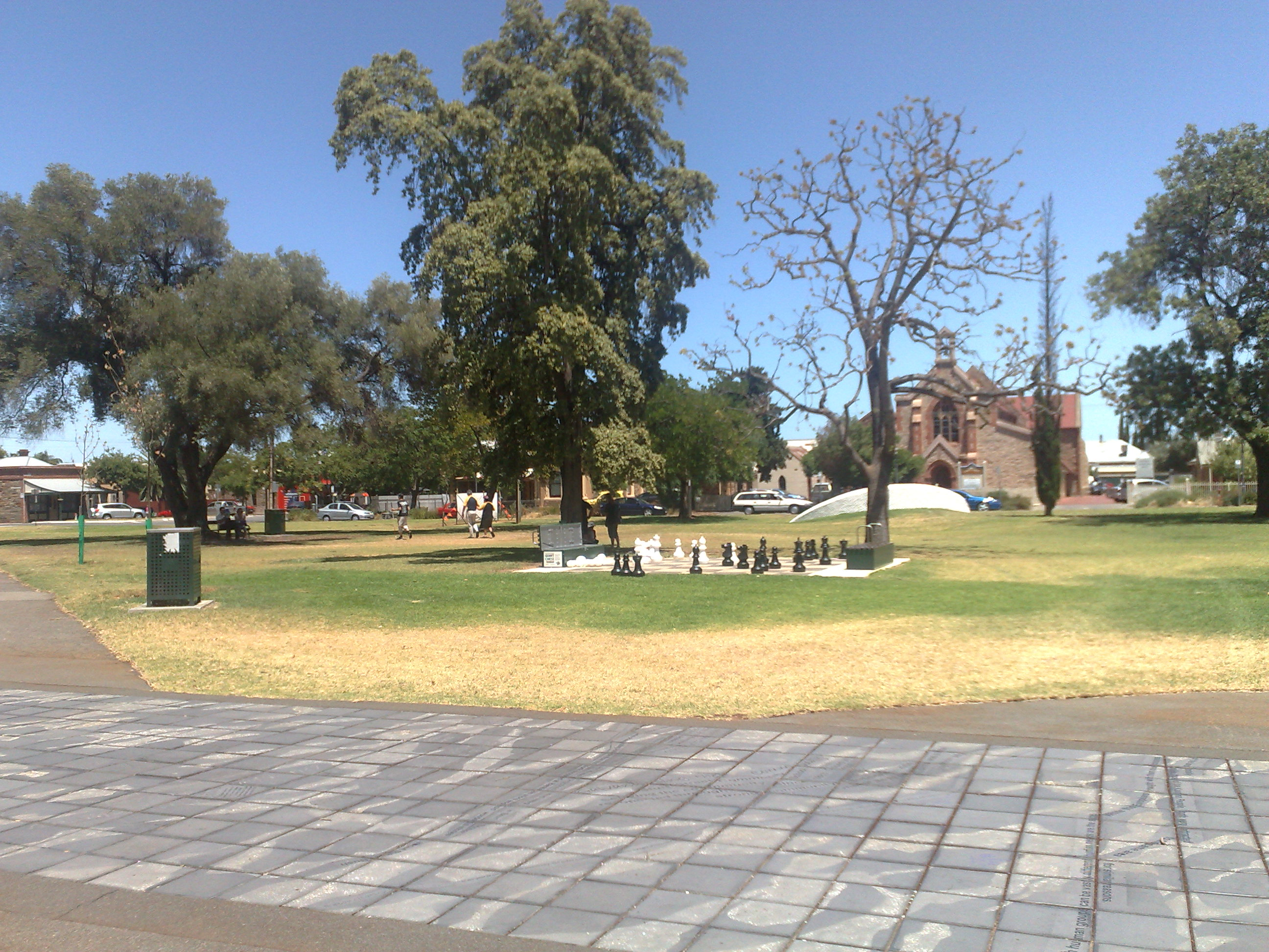 Oversize chess in the square at Whitemore square.